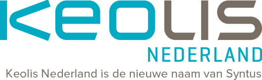 Logo of the Keolis Netherlands 2017